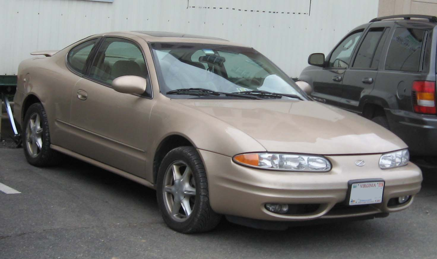 Oldsmobile Alero photographed in College Park, Maryland, U.S.